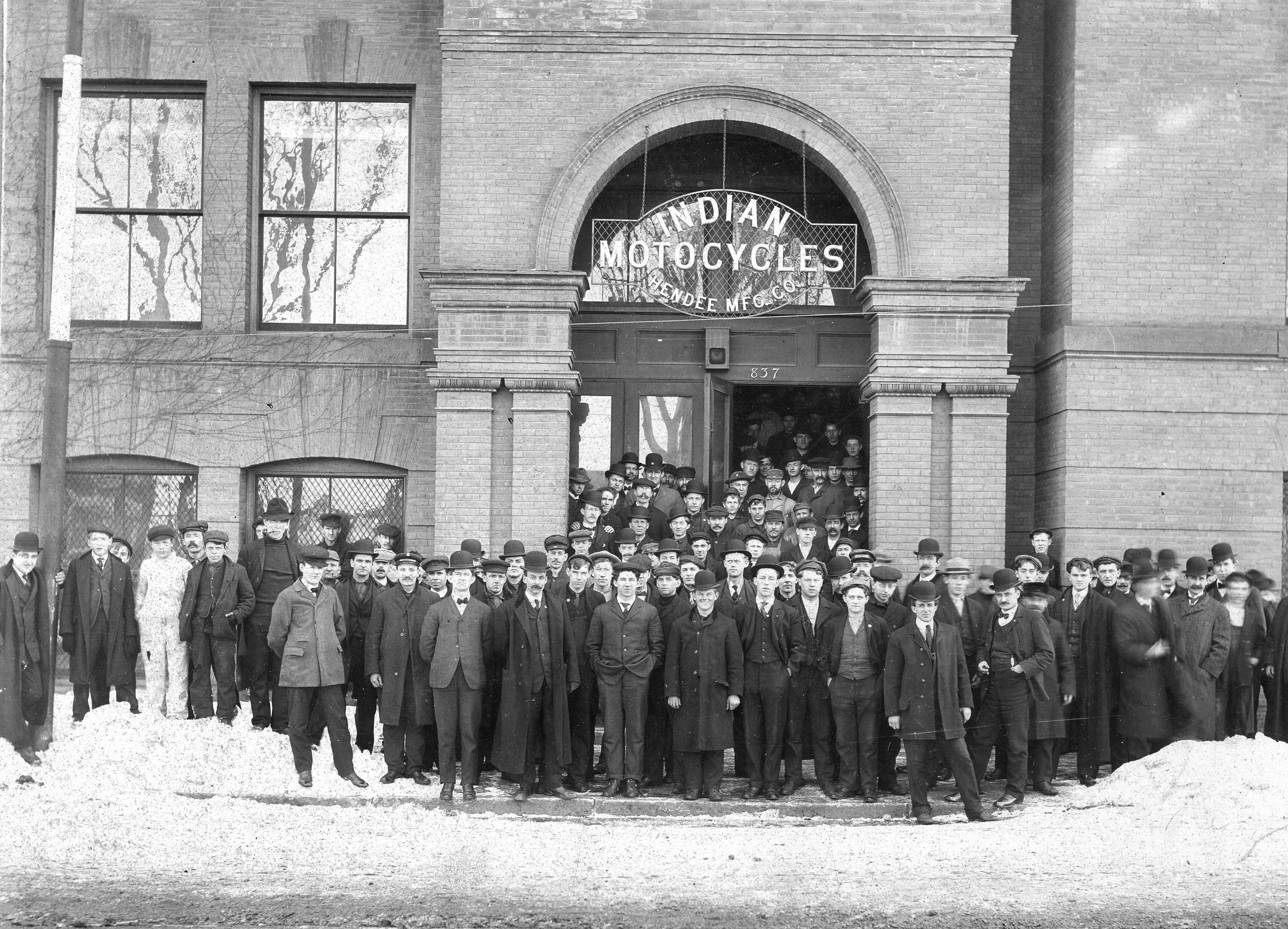 Taken prior to October 1923 when company name was changed to Indian Mfg Co. Photo courtesy of the Indian Motocycle Collection, Wood Museum of Springfield History, Springfield, Massachusetts.